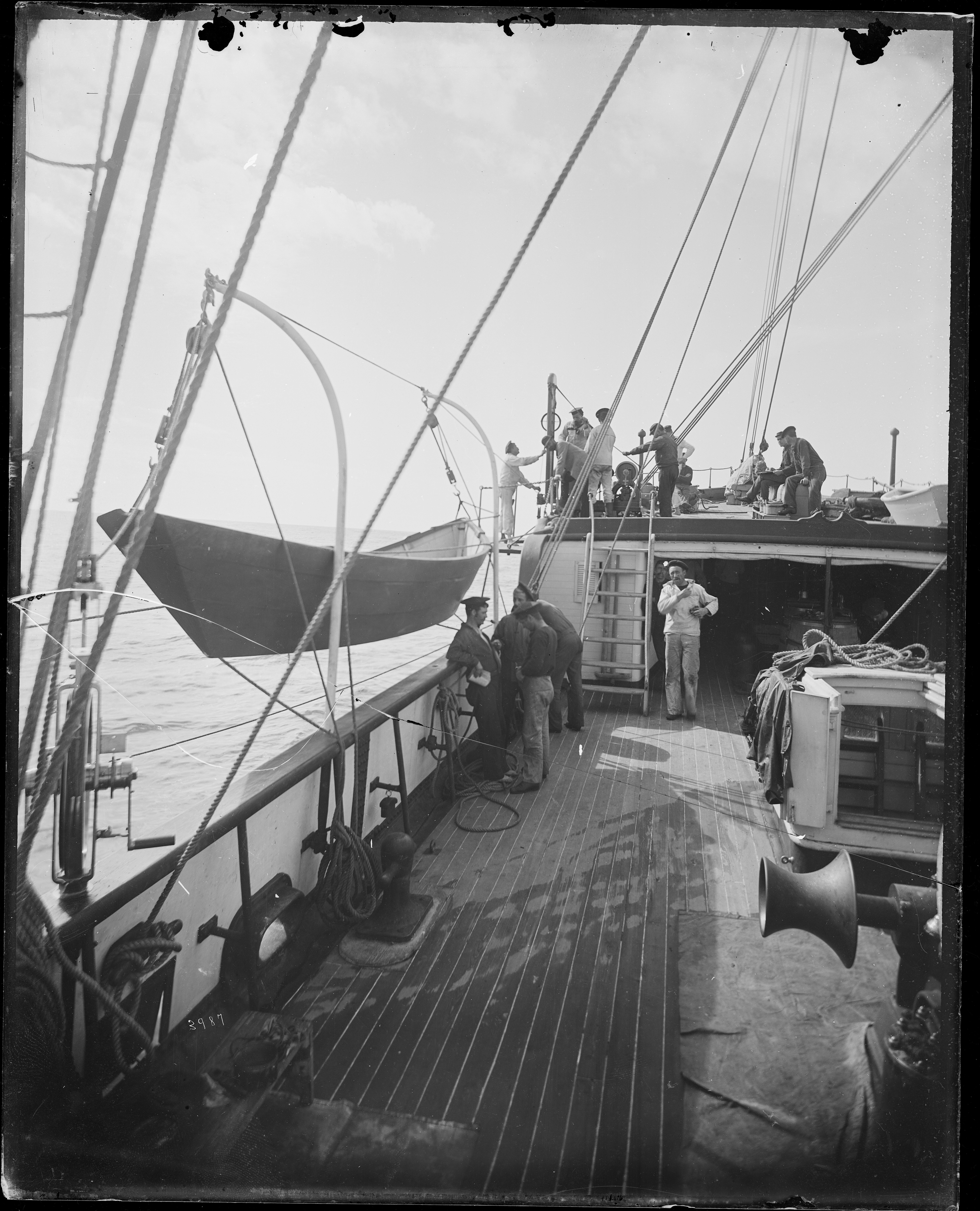 Partial view of bow deck on United States Fish Commission steamer "Albatross," showing sounding machine (at top left), and crew. From broken glass negative. Box 54. Smithsonian Institution Archives, Acc. 11-006, Box 012, Image No. MAH-3987